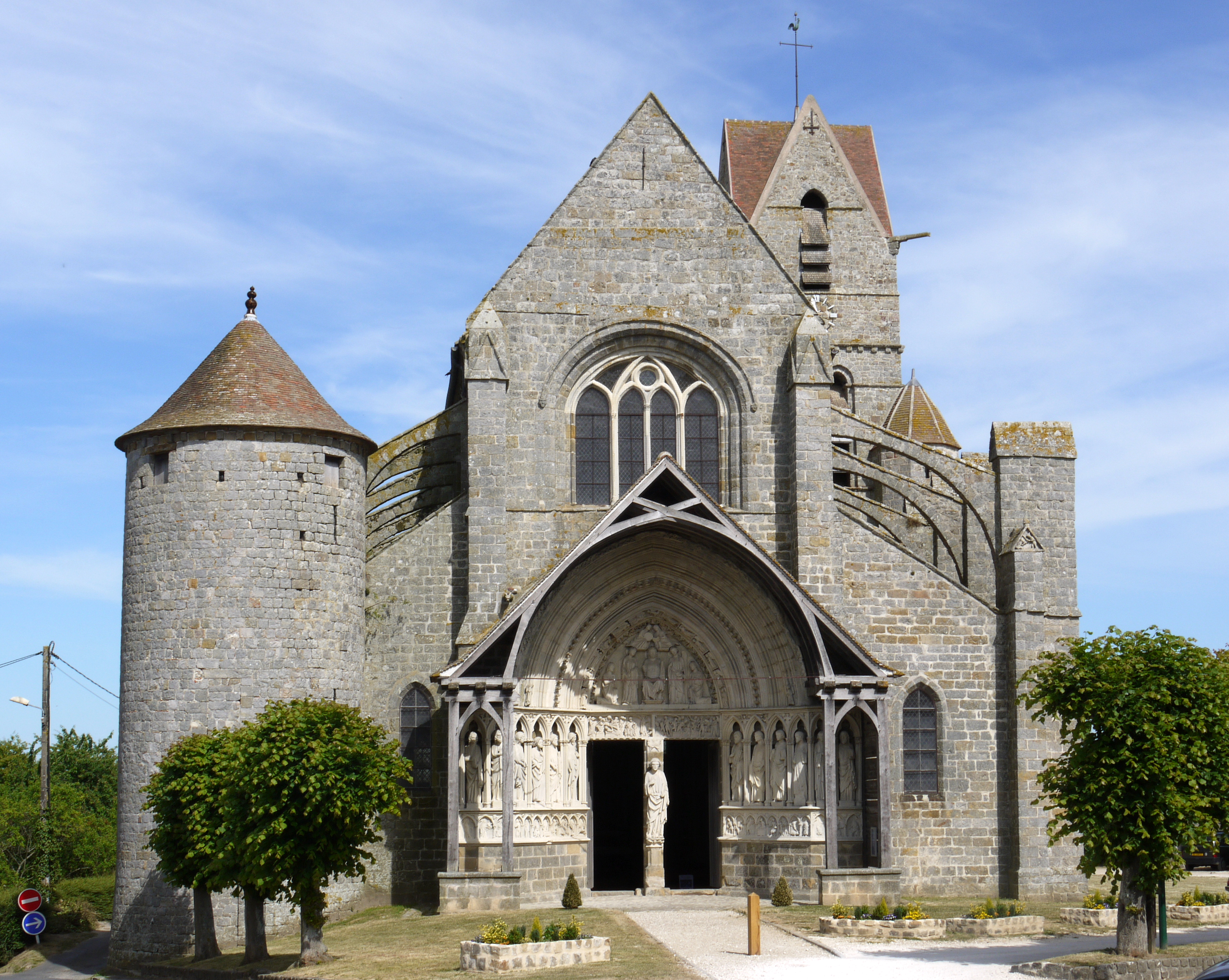 Church of Rampillon (XIIIth century), Seine et Marne, France